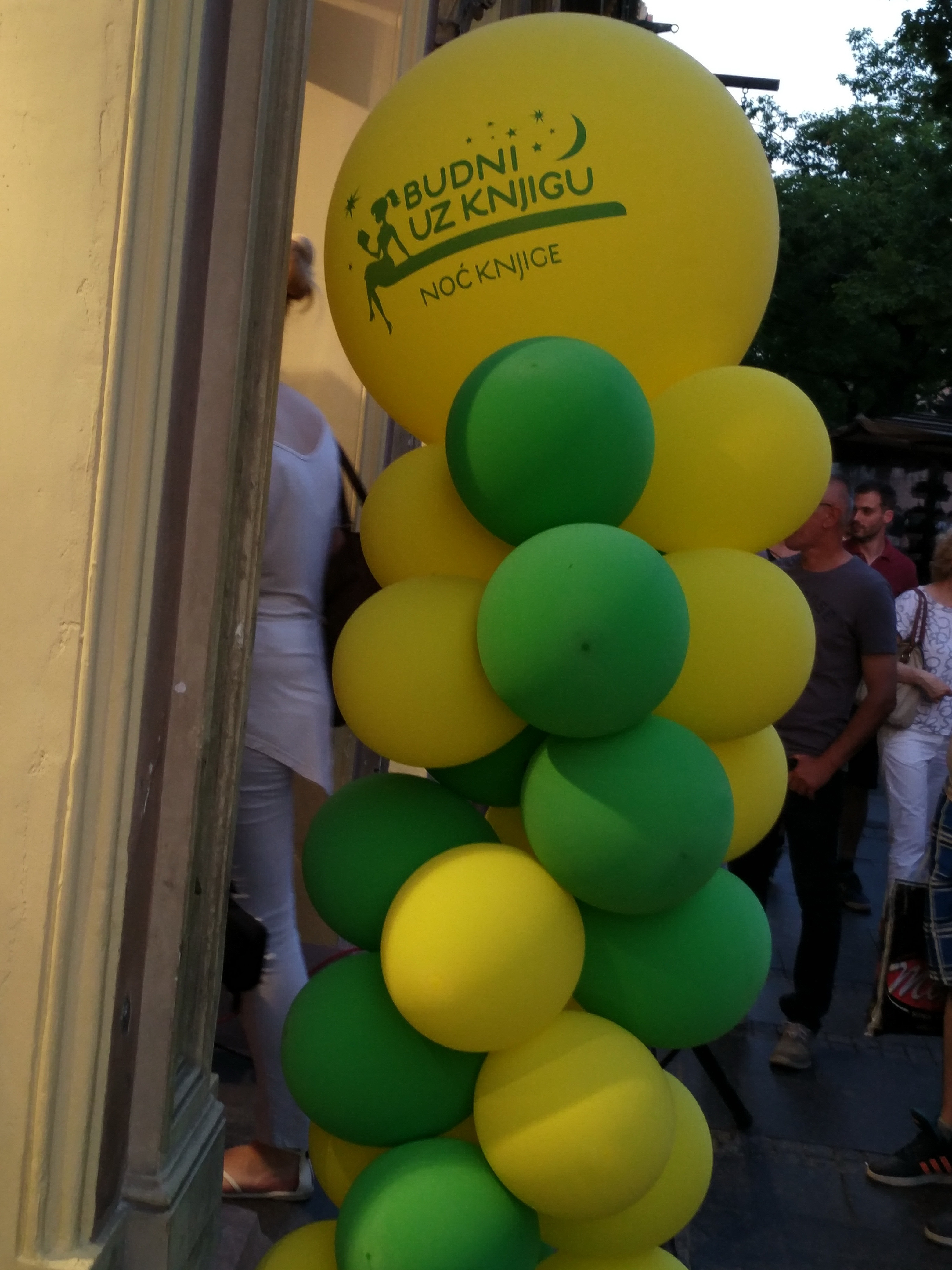 Night of book manifestation, 2019, Laguna bookshop, Belgrade, Serbia Srpski (latinica): 20. jubilarna manifestacija Noć knjige u Laguni, Beograd, Srbija